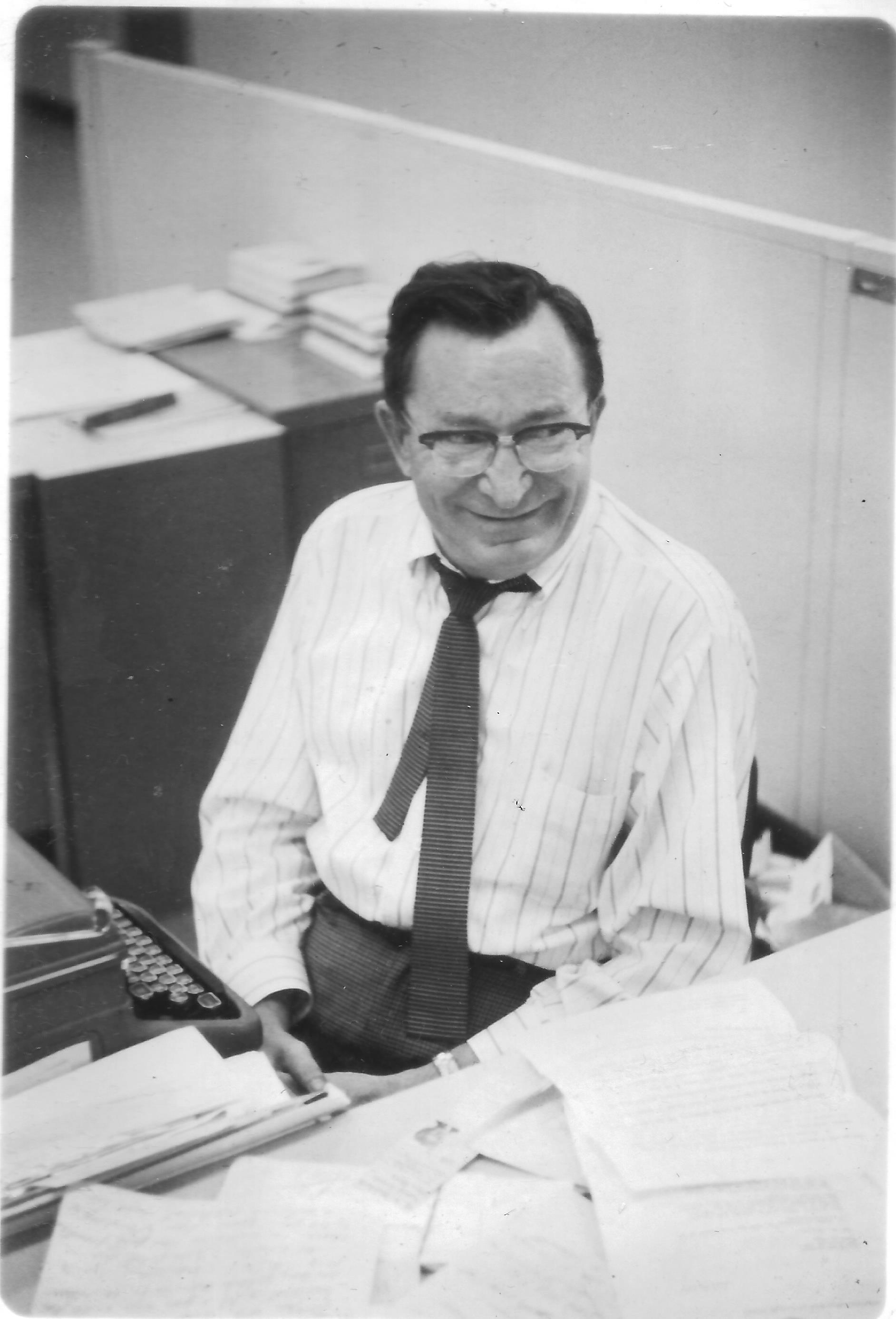 This is a photo of humor columnist at work at the Miami Herald, preparing his daily column for publication.